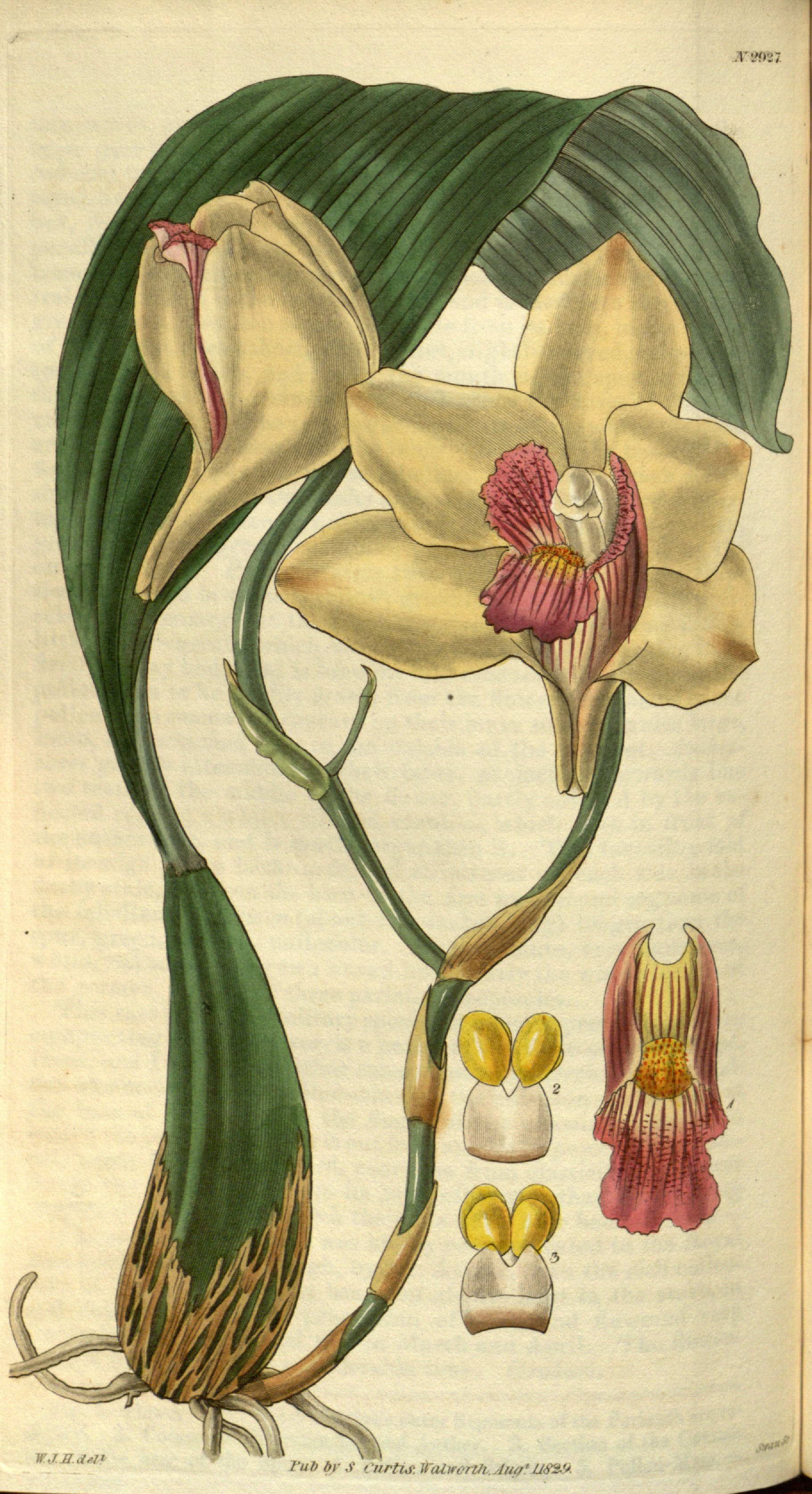 Illustration of Bifrenaria harrisoniae (as syn. Maxillaria harrisoniae)